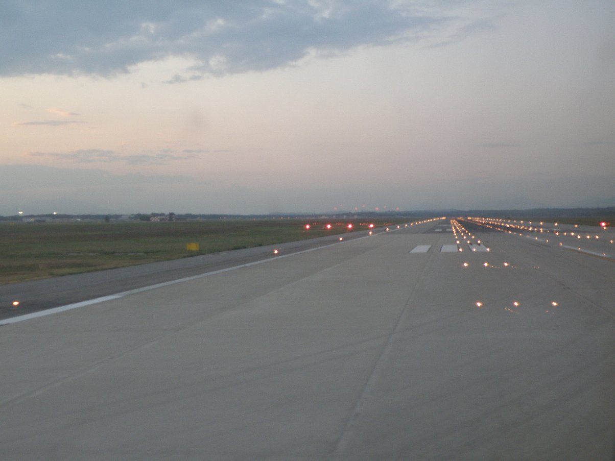 Runway 35R Airport Milan Malpensa - MXP LIMC